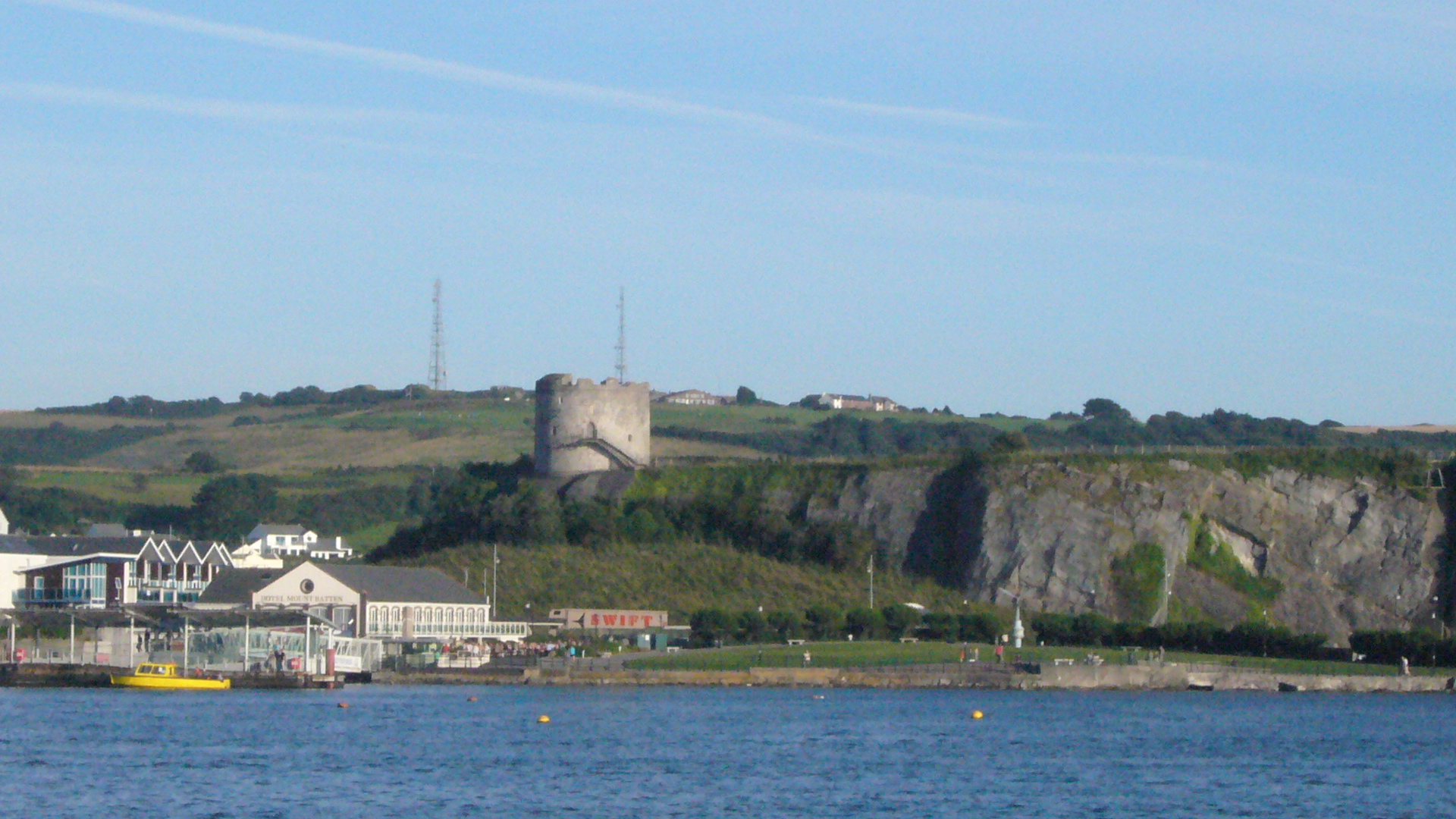 Mounbatten,Plymouth,Devon,England,UK